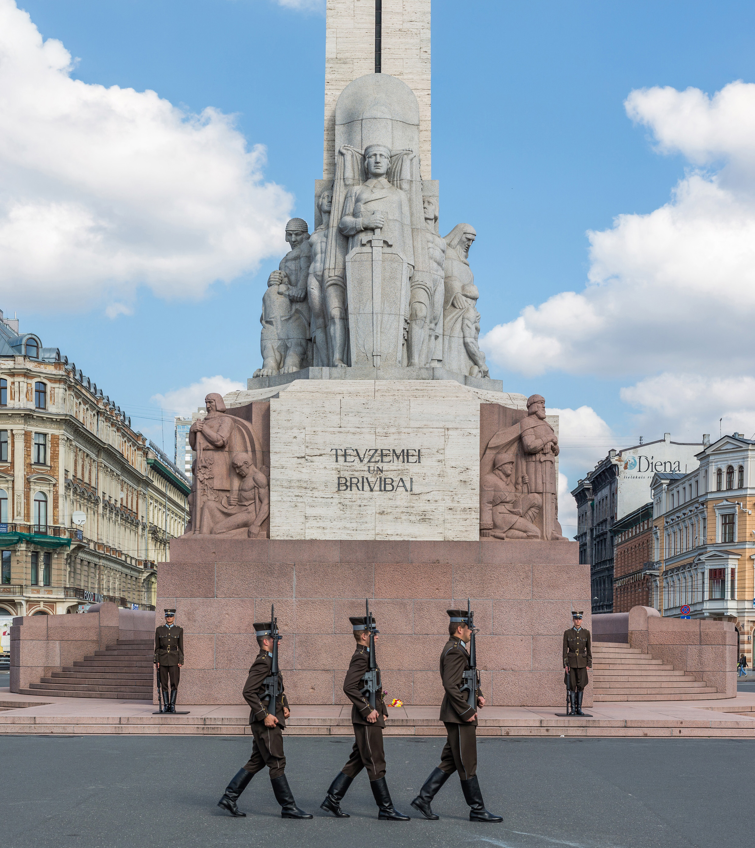 Latvian soldiers in ceremonial uniform of The Company of Guard of Honor, guarding the Freedom Monument in Riga, Latvia.